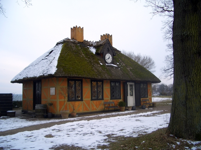 Den Gule Cottage in Klampenborg designed by Gottlieb Bindesbøll. The building has been erected as the gatekeeper's house of the Klampenborg Vandkur-, Brønd- og Badeanstalt and is now as a work of Bindesbøll fredet, i.e. part of the architectural heritage of Denmark. Since 2010 it accommodates a bistro.